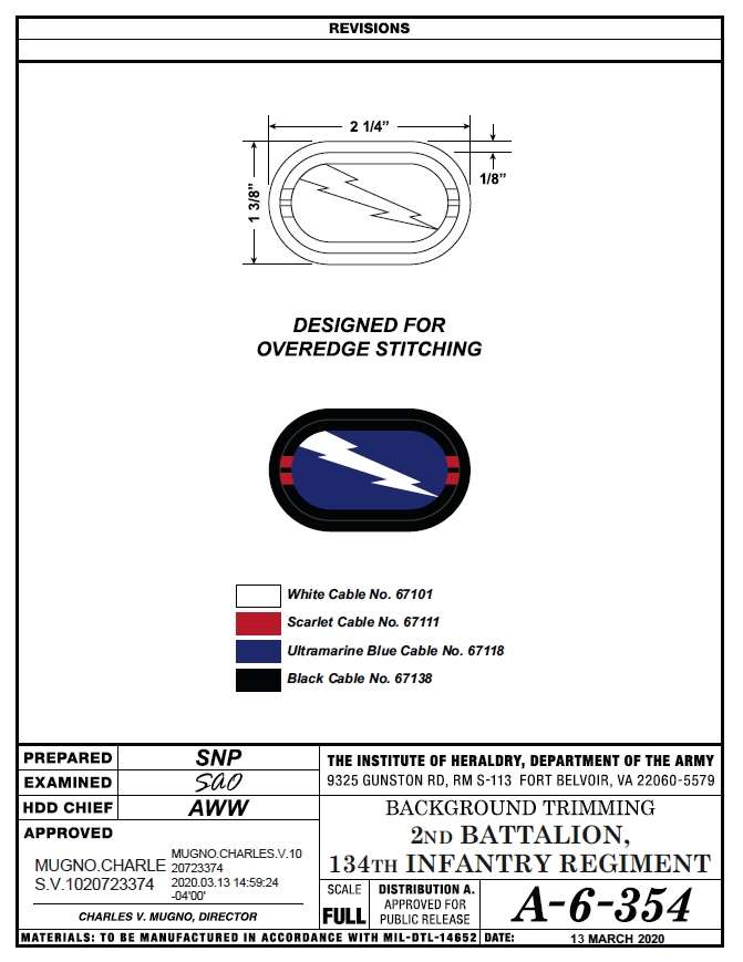 U.S. Army National Guard, 2nd Battalion, 134th Infantry Regiment's Background Trimming manufacturing instruction